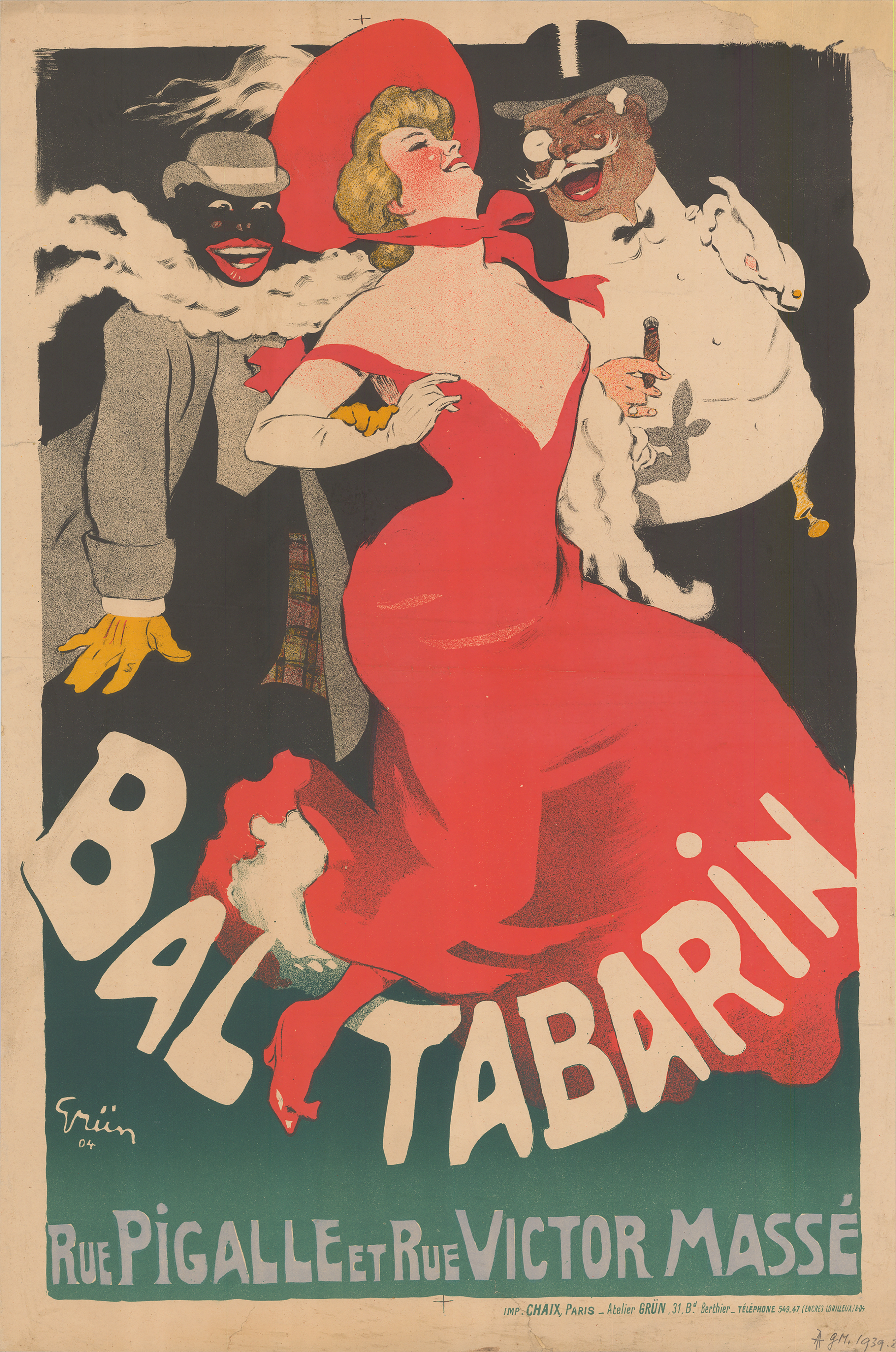 Painting by Jules-Alexandre Grün (1868-1934)